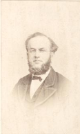 Plate 13 Photograph album of German and Austrian scientists. Mainz: Dr. G. Weirich; R. Löhbach; Prof. Dr. Paul Reis; Dr. Ludwig Noiré; Dr. M. Munier; von Reichenau; Victor Zeppenfeld, Flensburg; Arthur Fitger, Bremen.